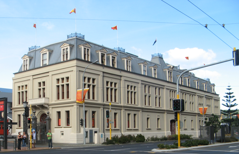 Museum of Wellington City & Sea (Bond Store), Wellington, New Zealand.